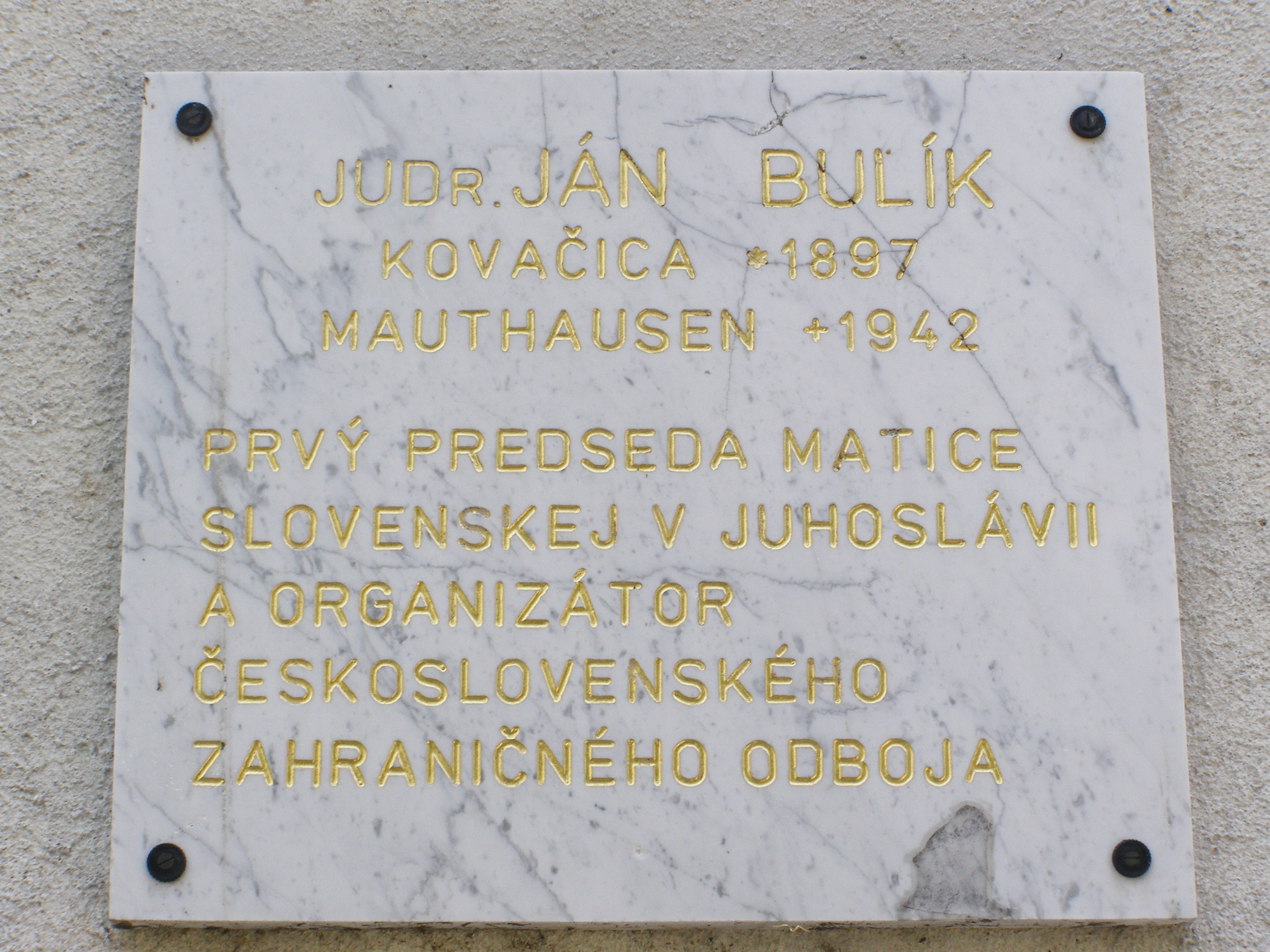 JAN BULIK TABULA